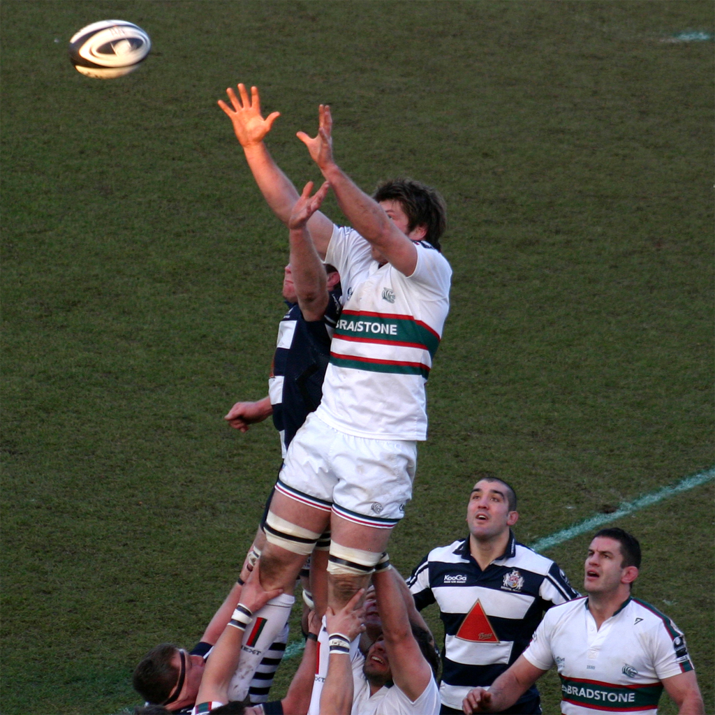 Lineout in rugby union match between Leicester Tigers and Bristol Rugby